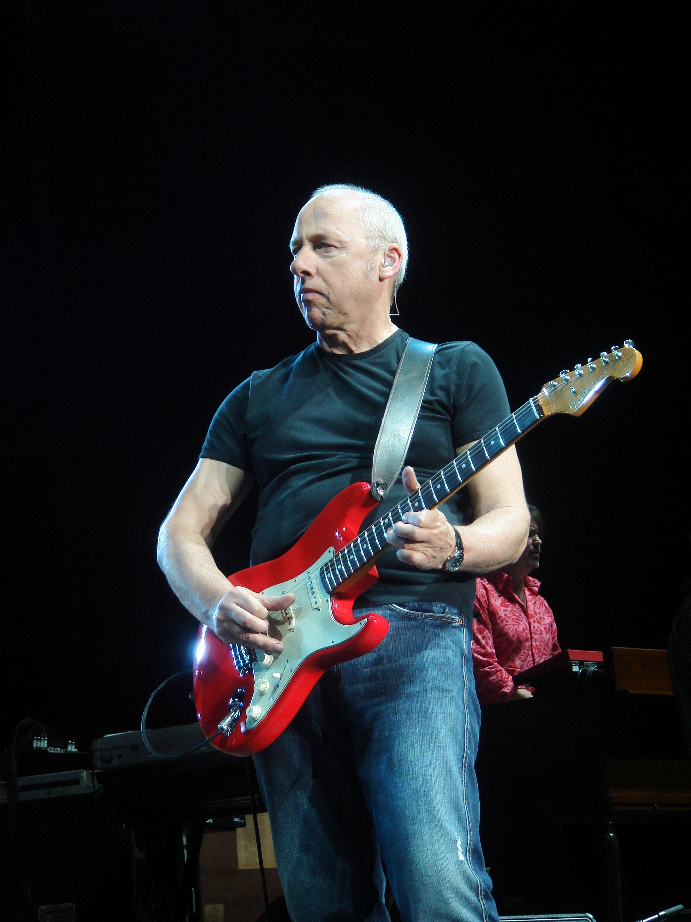 Mark Knopfler performing live at the National Exhibition Centre in Birmingham, England, 16 May 2008